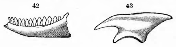 Dentary and ilium of Nanoaurus agilis.